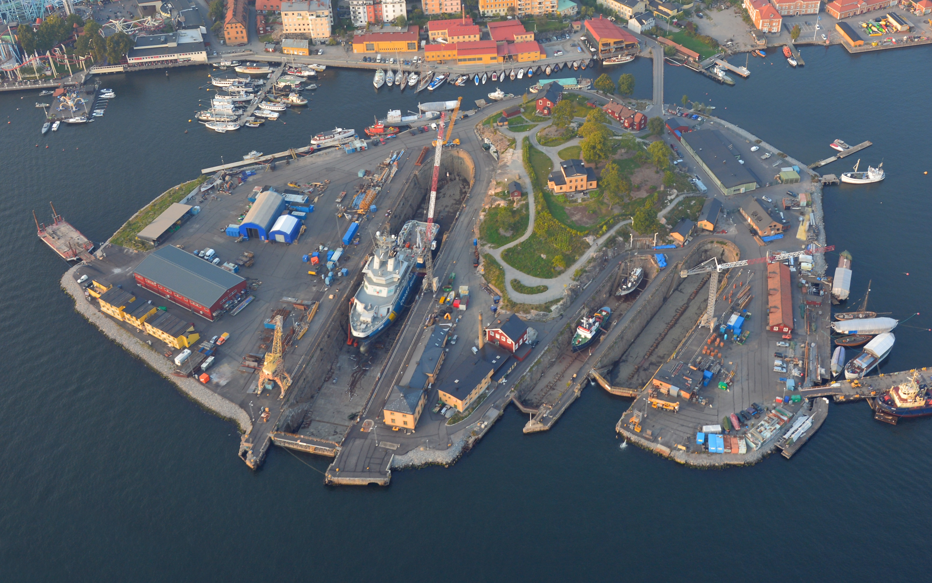 The isle Beckholmen in Stockholm, Sweden.